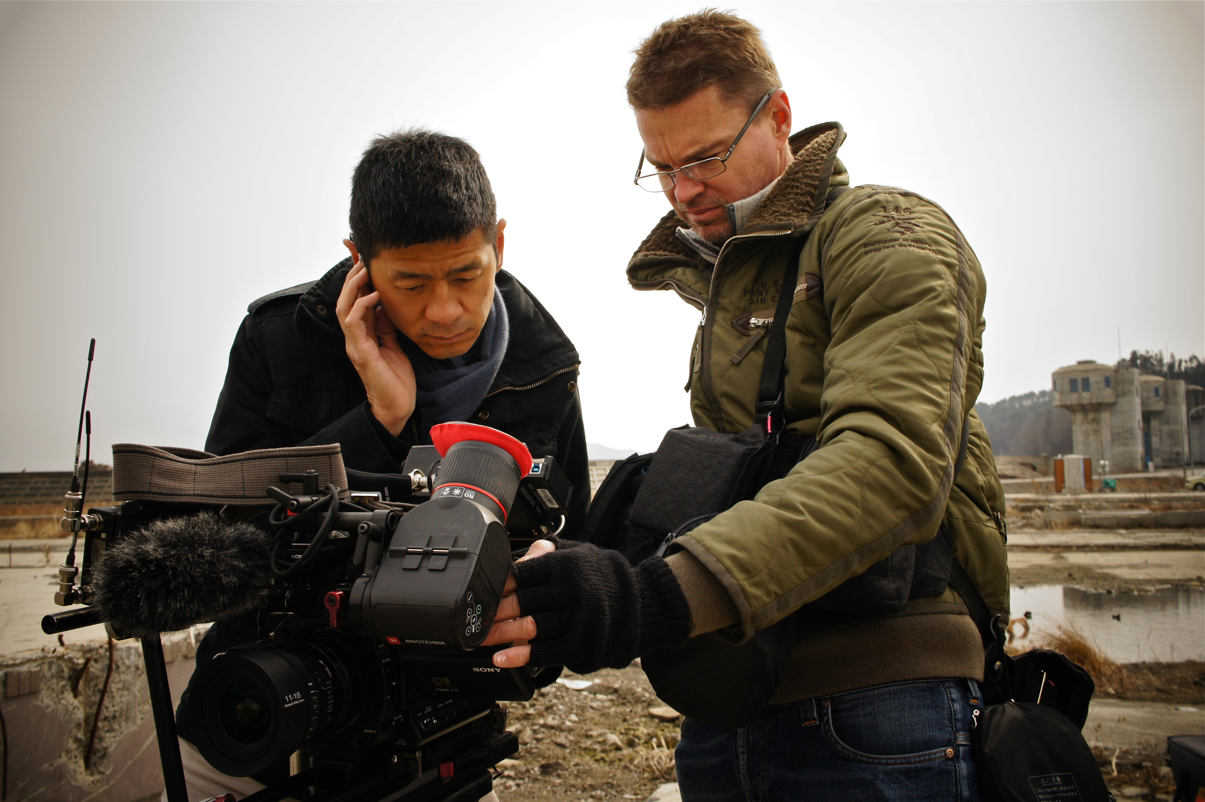 Senior Asia Correspondent, Steve Chao, and senior cameraperson Matthew Allard look over video in the ruins of Otsuchi, Japan.